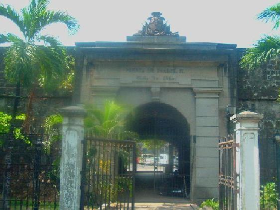 Puerta Isabela II